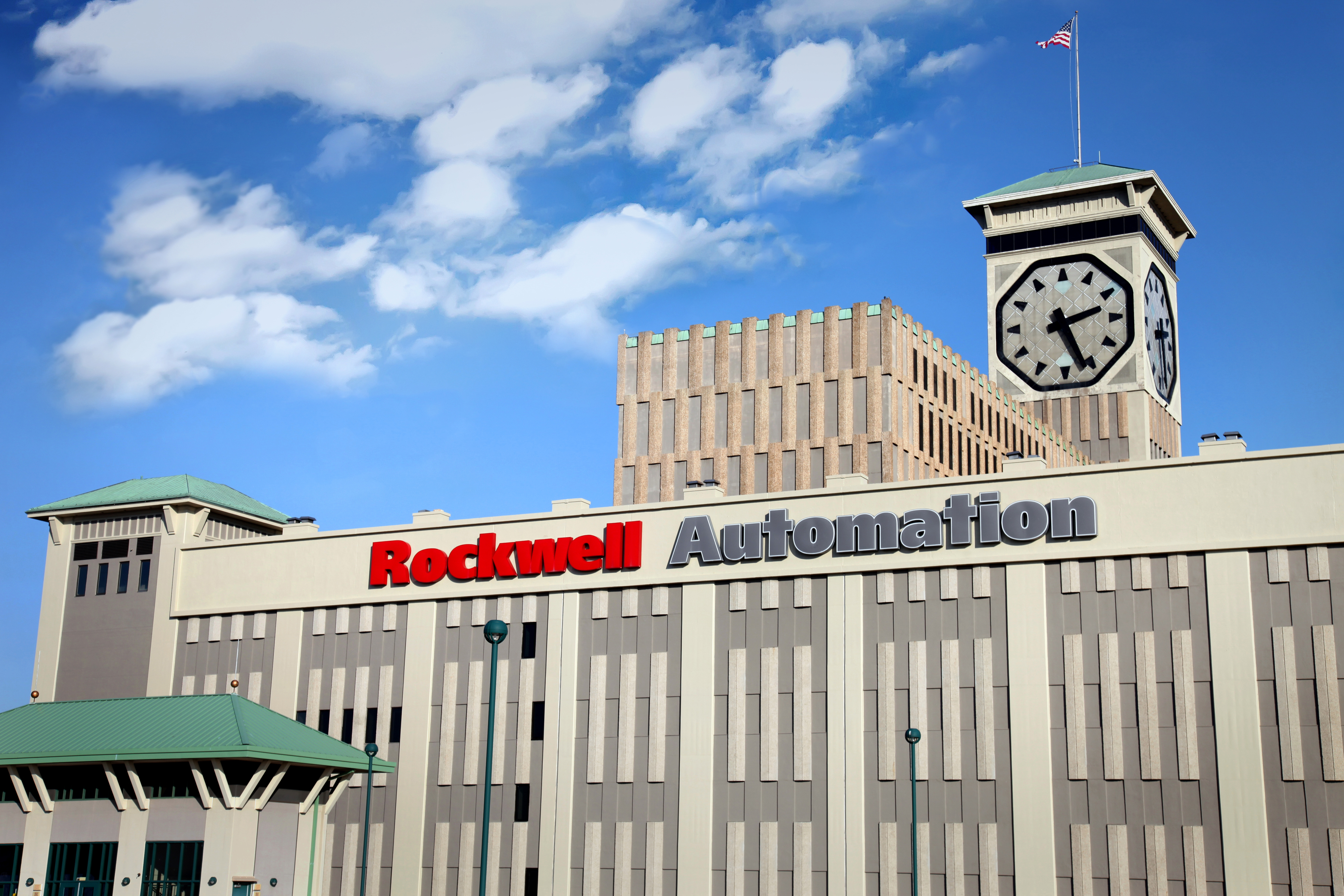 Rockwell Automation's current headquarters in Milwaukee, Wis.